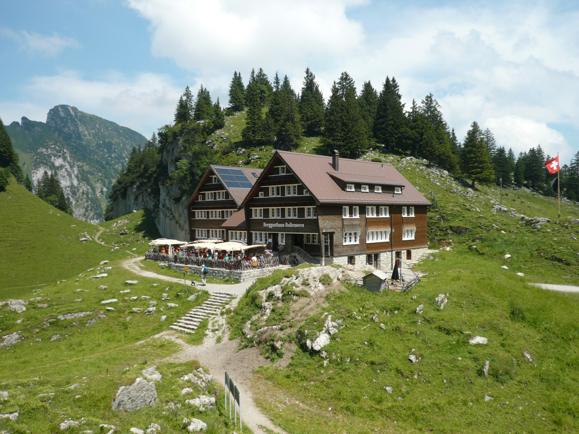 Bollenwees in the Swiss mountains, Kanton Appenzell Innerrhoden.